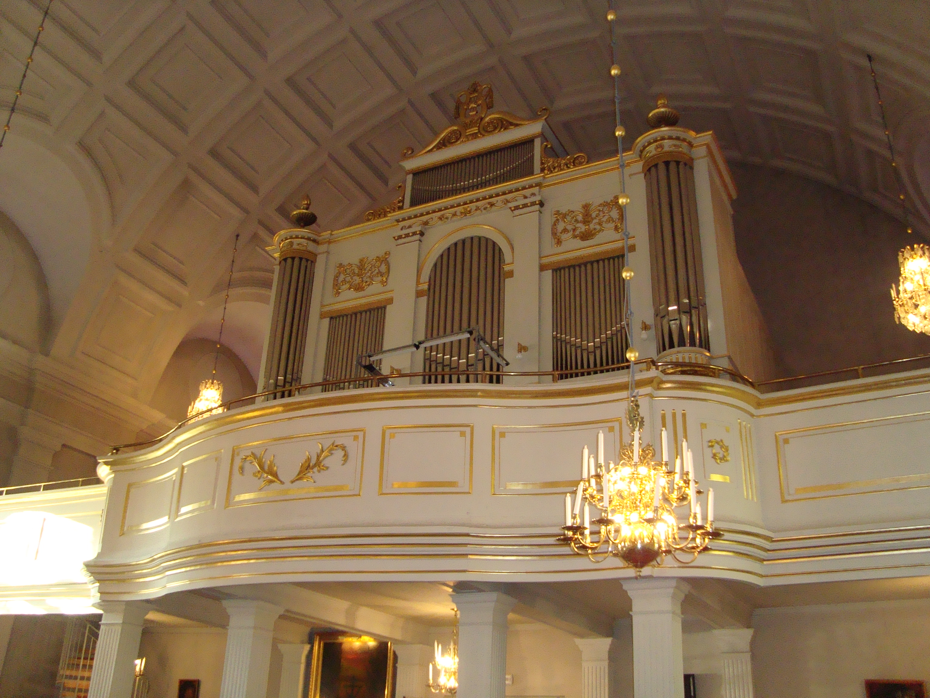 Pipe organ gallery of Church of By, Avesta municipality, Sweden